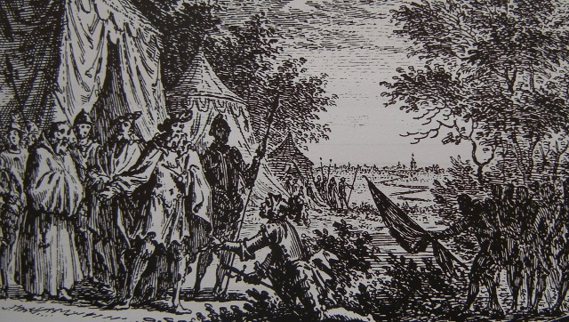 Capitulation of William of Cleves to Charles V in 1543